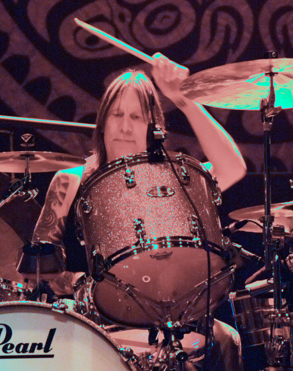 Matt Abts playing with Govt. Mule in 2008